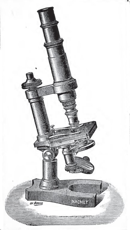 Advertisement for Nachet's (Paris) Microscopes. This model is said to have been purchased by the Royal Victoria Hospital in Montreal.